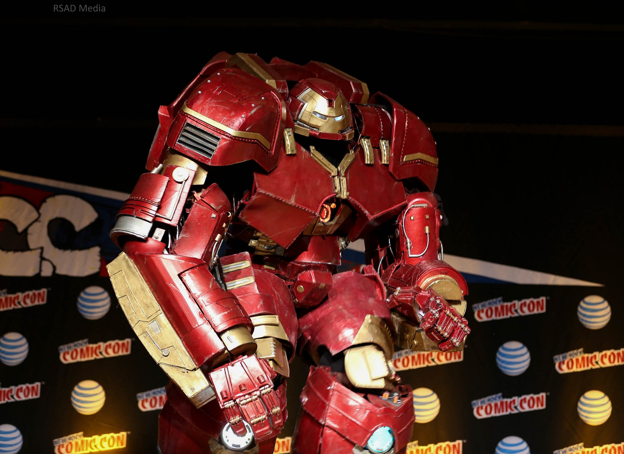 New York Comic Con 2015 - Hulkbuster Cosplay at the 2015 New York Comic Con (NYCC 2015).